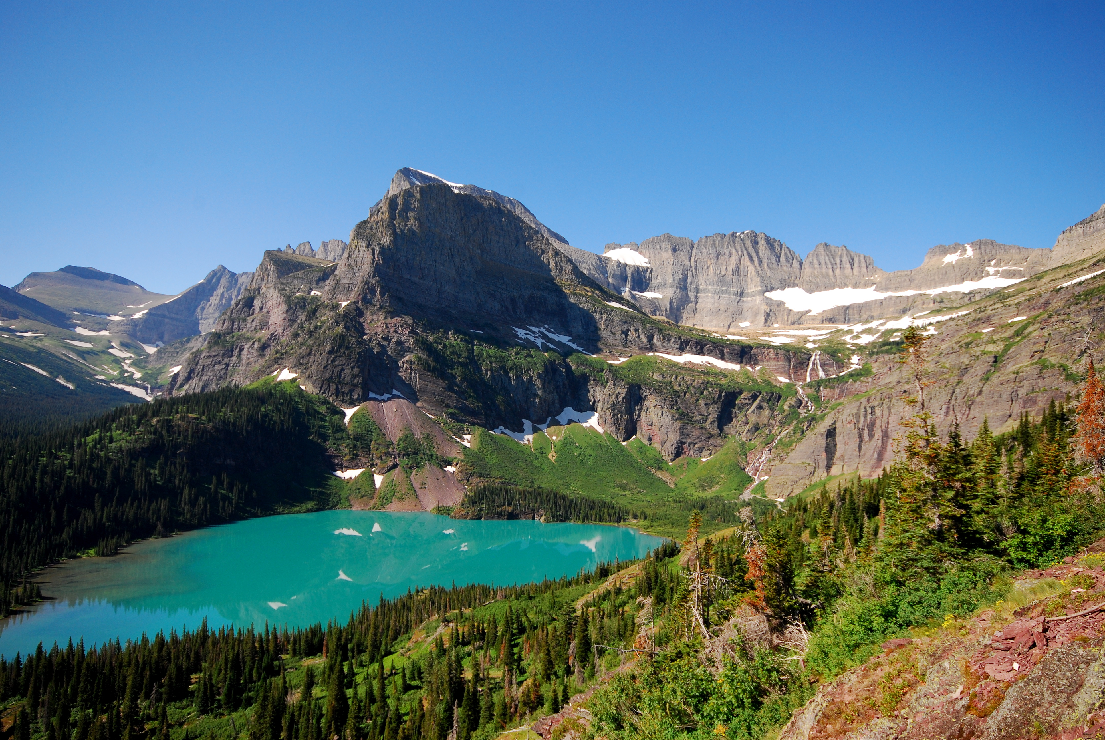 Mount Gould and Angel Wing behind Grinnell Lake